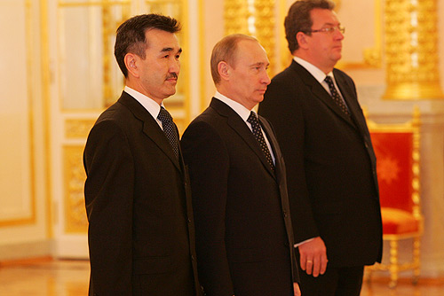 THE KREMLIN, MOSCOW. The Ambassador of the Republic of Kyrgyzstan, Raimkul Arzimamatovich Attakurov, presents his credentials to the President of Russia.